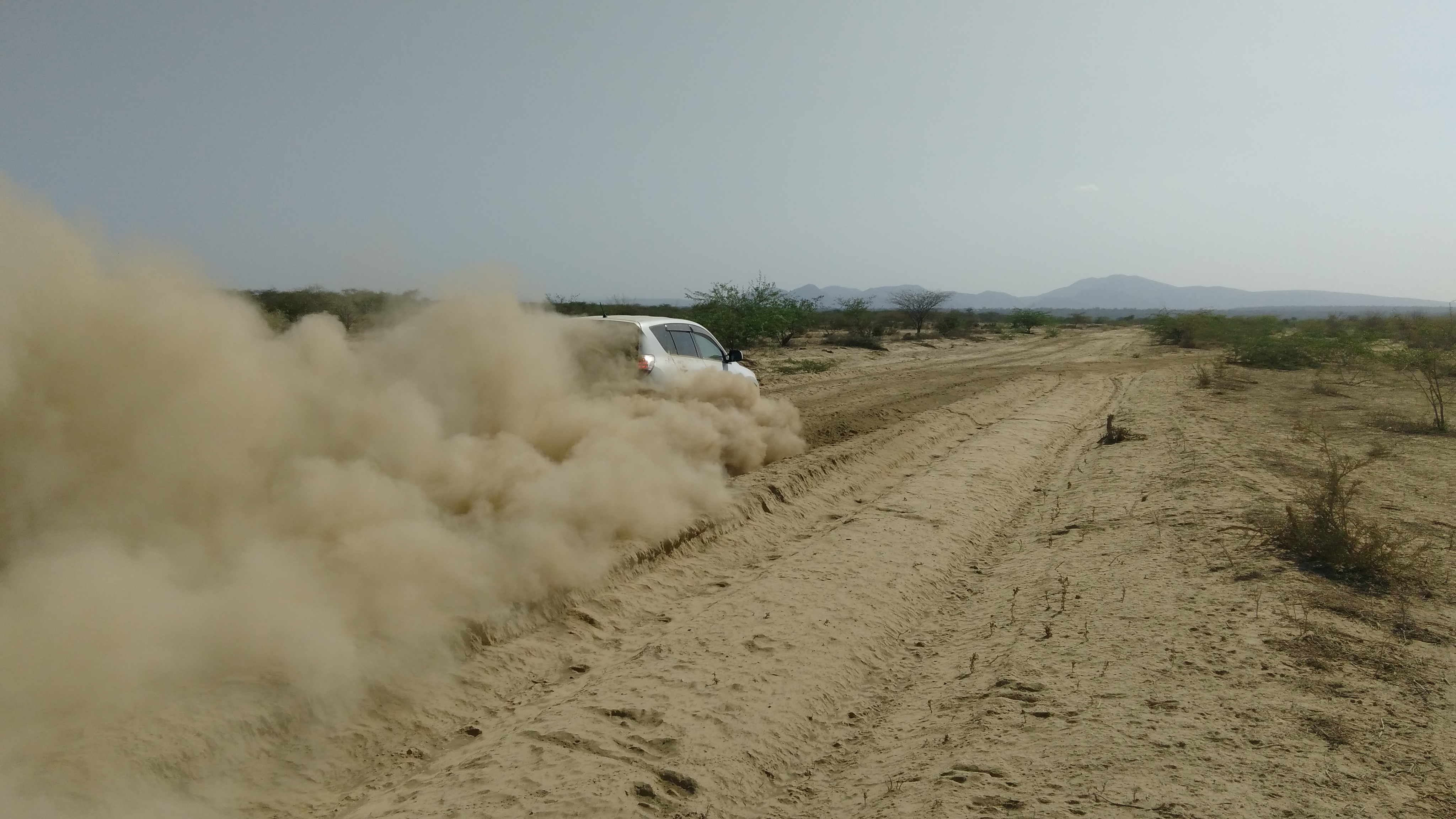 This is an image with the theme "Africa on the Move or Transport" from: Kenya